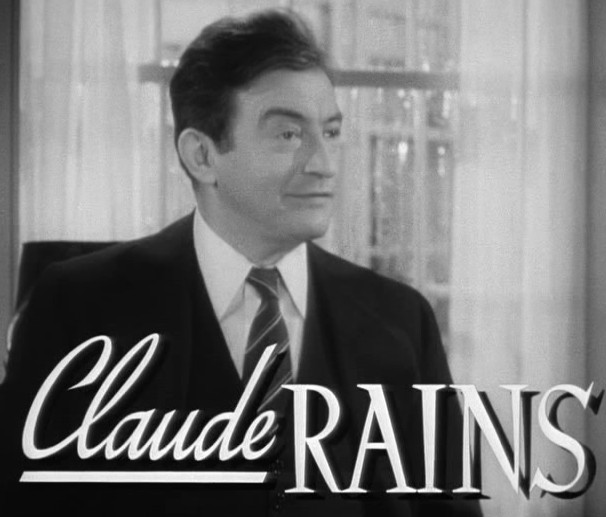 Cropped screenshot of Claude Rains from the trailer for the film Now, Voyager.